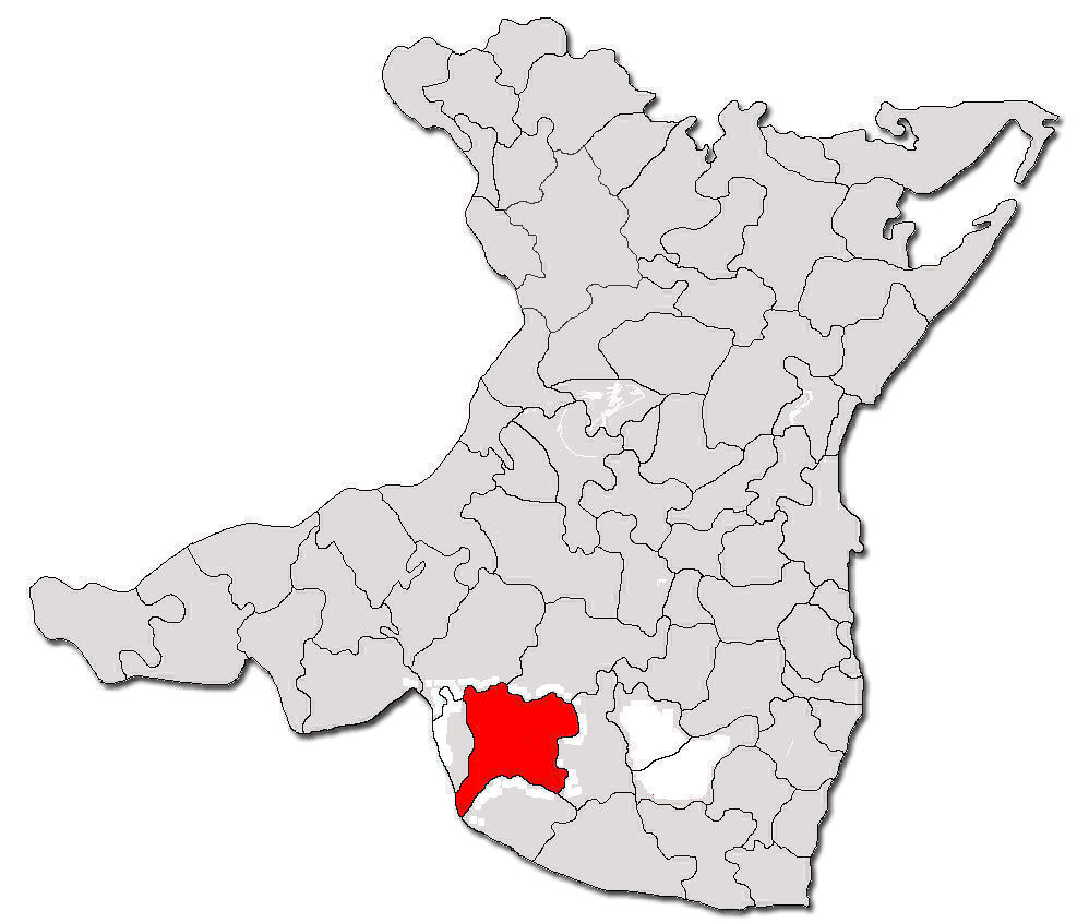 Contour map of Independenta commune